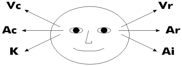 Eye Movements in NPL Vc (Visual constructed) One constructs images never imagined before or seen differently than before. Vr (Visual remembered) One sees images of something remembered. Ac (Auditory constructed) One hears sounds not heard before. Ar (Auditory remembered) One hears previously heard sounds. Ai (Auditory internal dialogue) One is talking internally to one's self. K (Kinesthetic) One experiences feelings (emotions, sensations, movement).